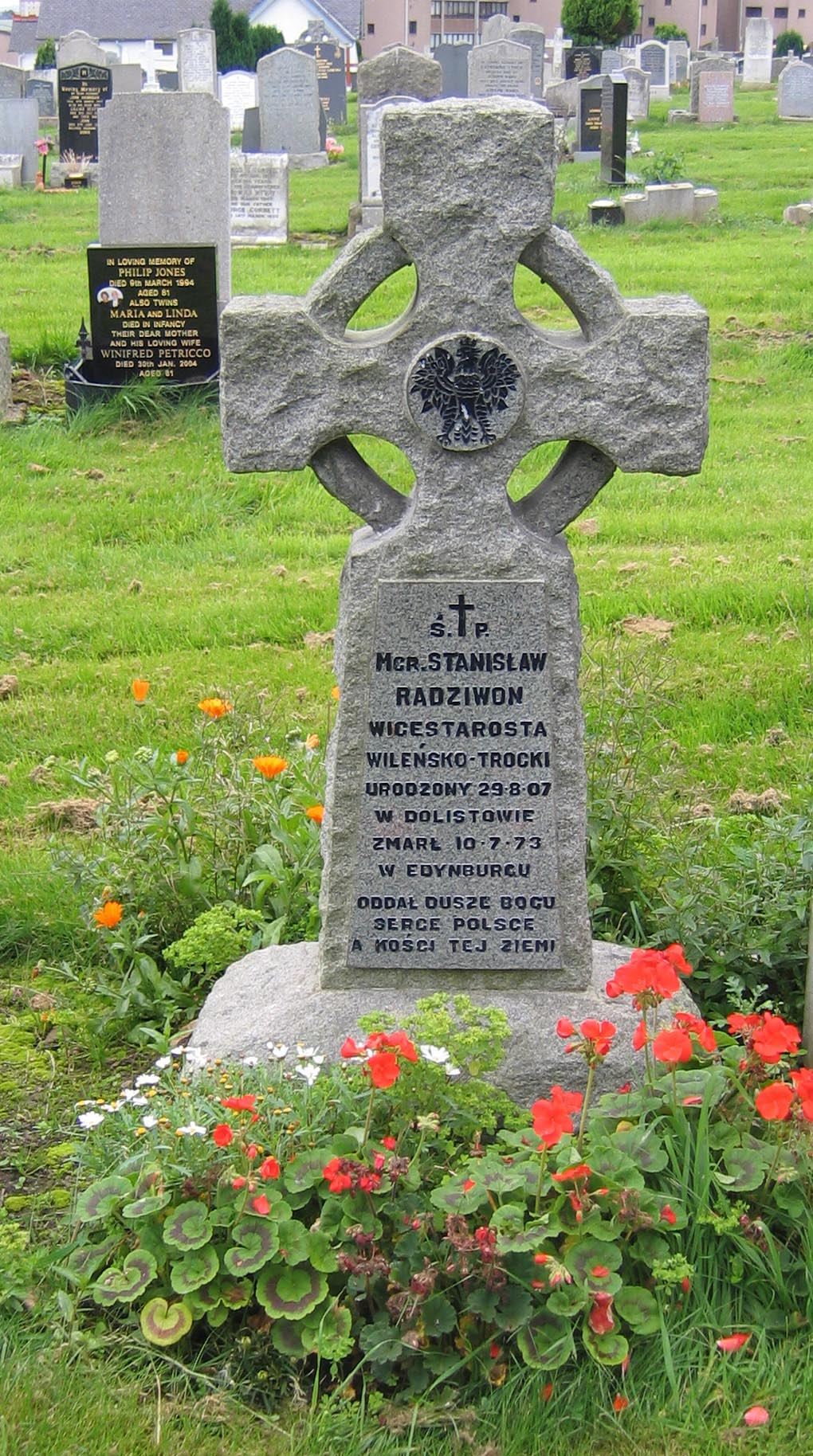 Stan Radziwon grave headstone